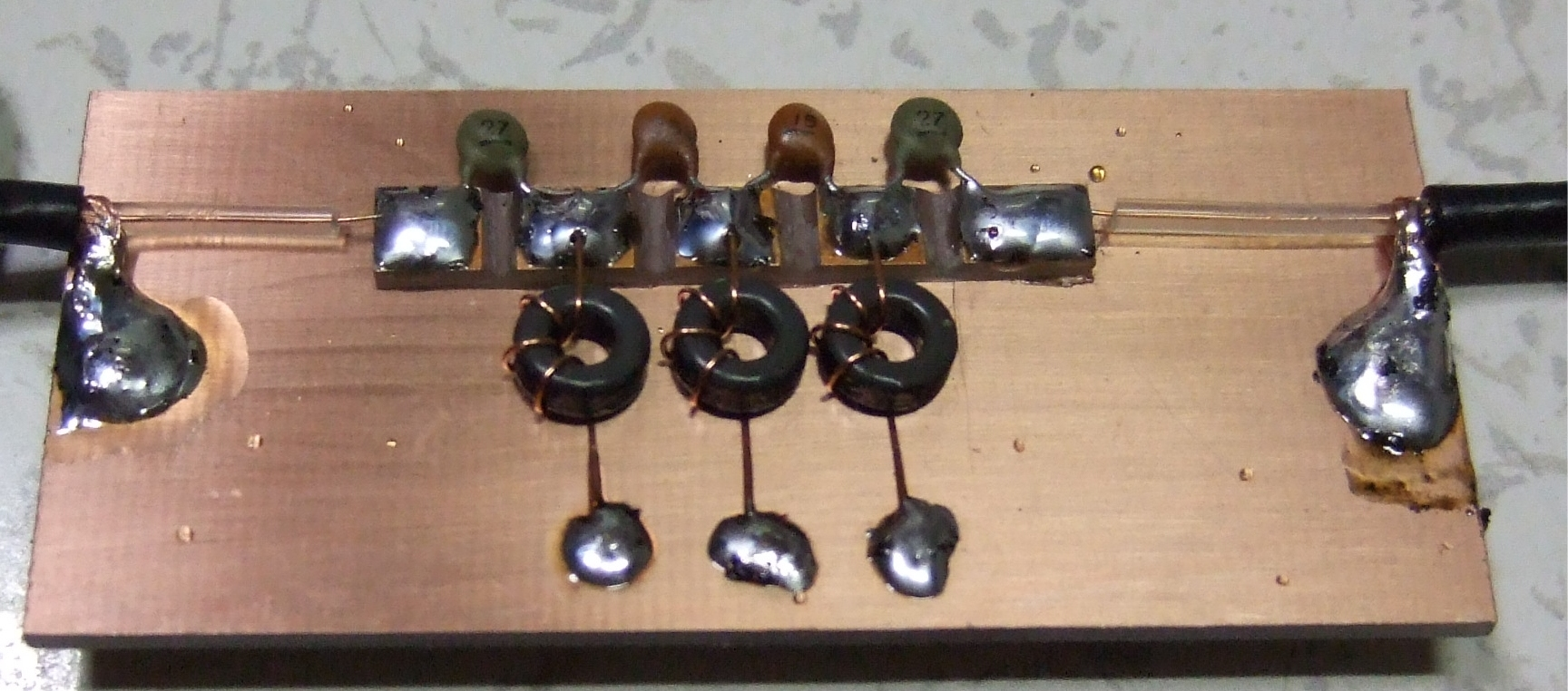 Chebyshev highpass filter. Cut-off frequency is 90 MHz.